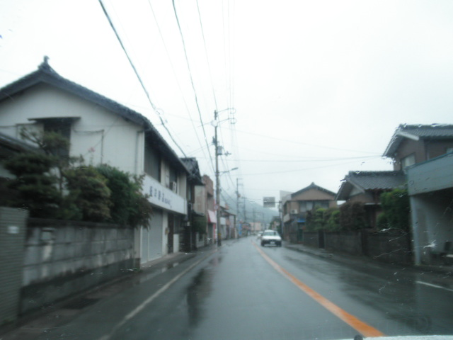 Kuwanotown 中野 Anancity Tokushimapref Tokushimaprefectural road 24 Hanoura Fukui line